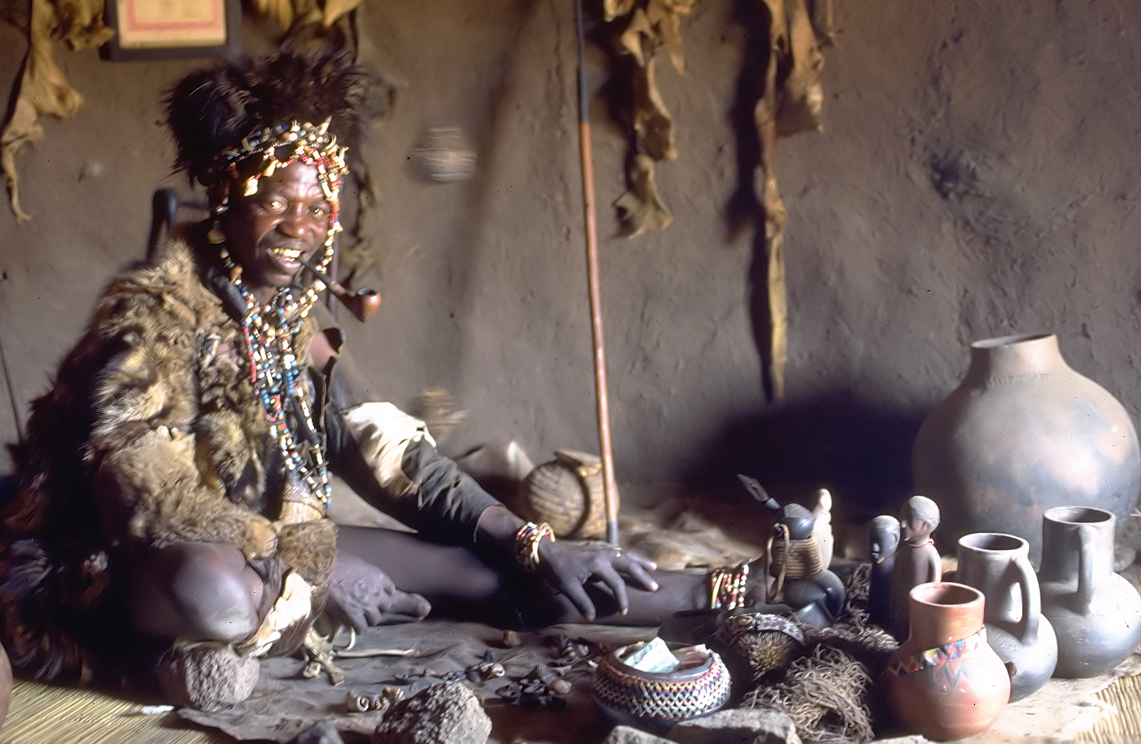 Witch doctor of the Shona people close to Great Zimbabwe, Zimbabwe.Kodak photo CD from slide.